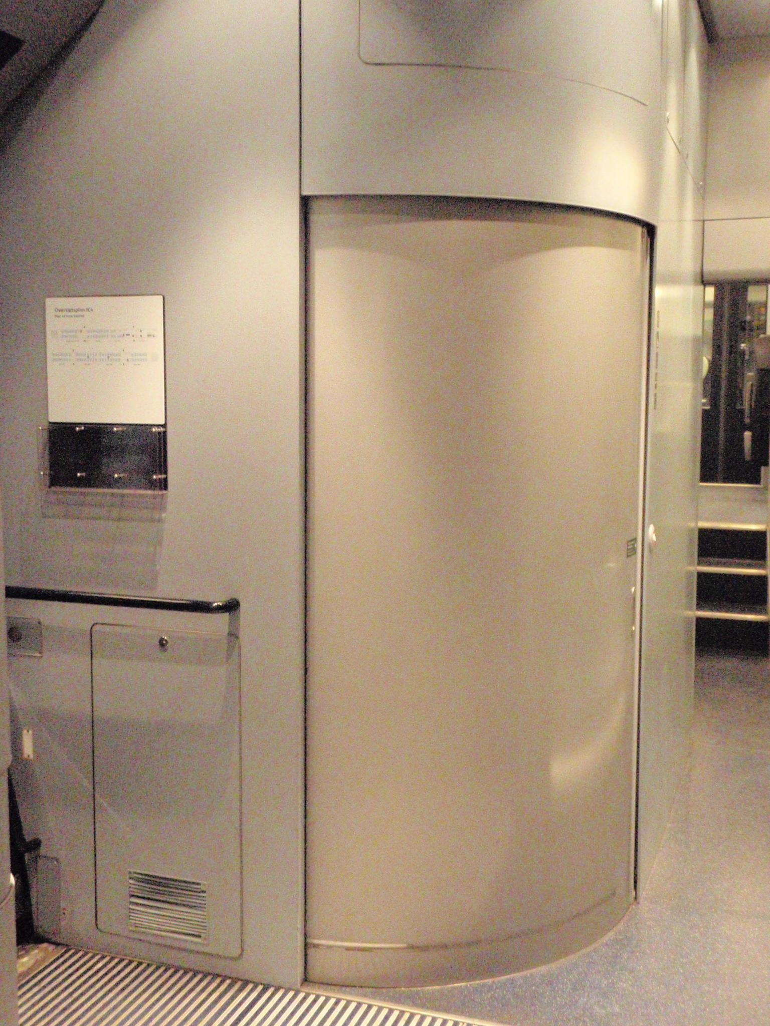 IC4 unit 24. Low floor coach. Entrance to rest room